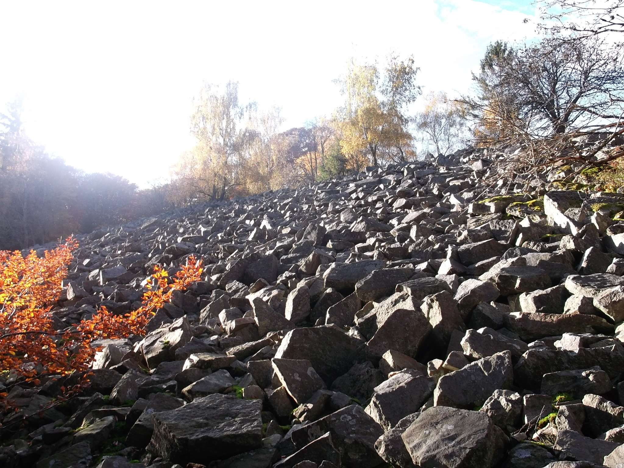 "Weiße Mauer" (white wall), formation in Taunus/Germany